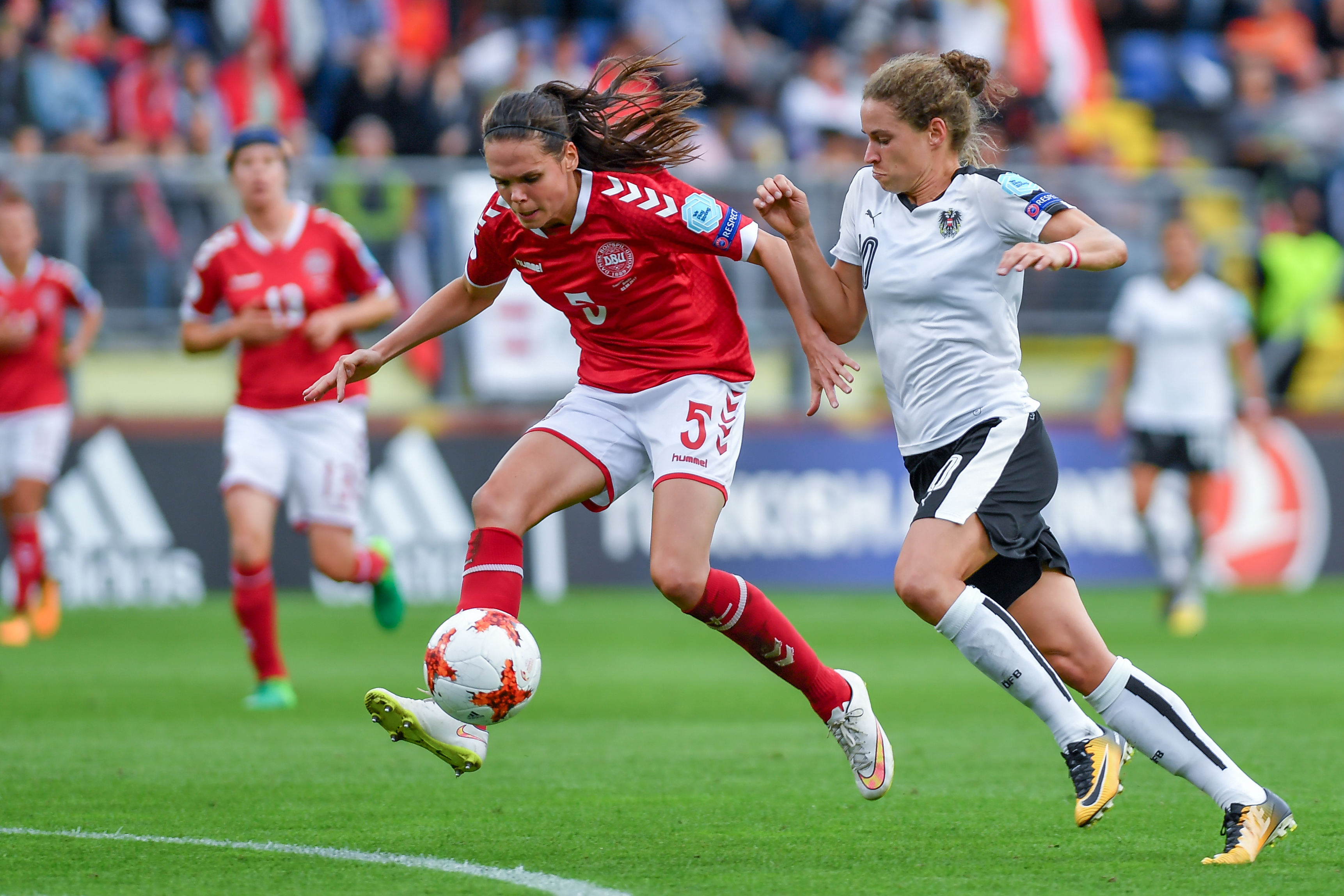 3/8/2017, Breda, Netherlands, sports, soccer, UEFA Women's Euro 2017 - Semifinal - Denmark vs Austria.